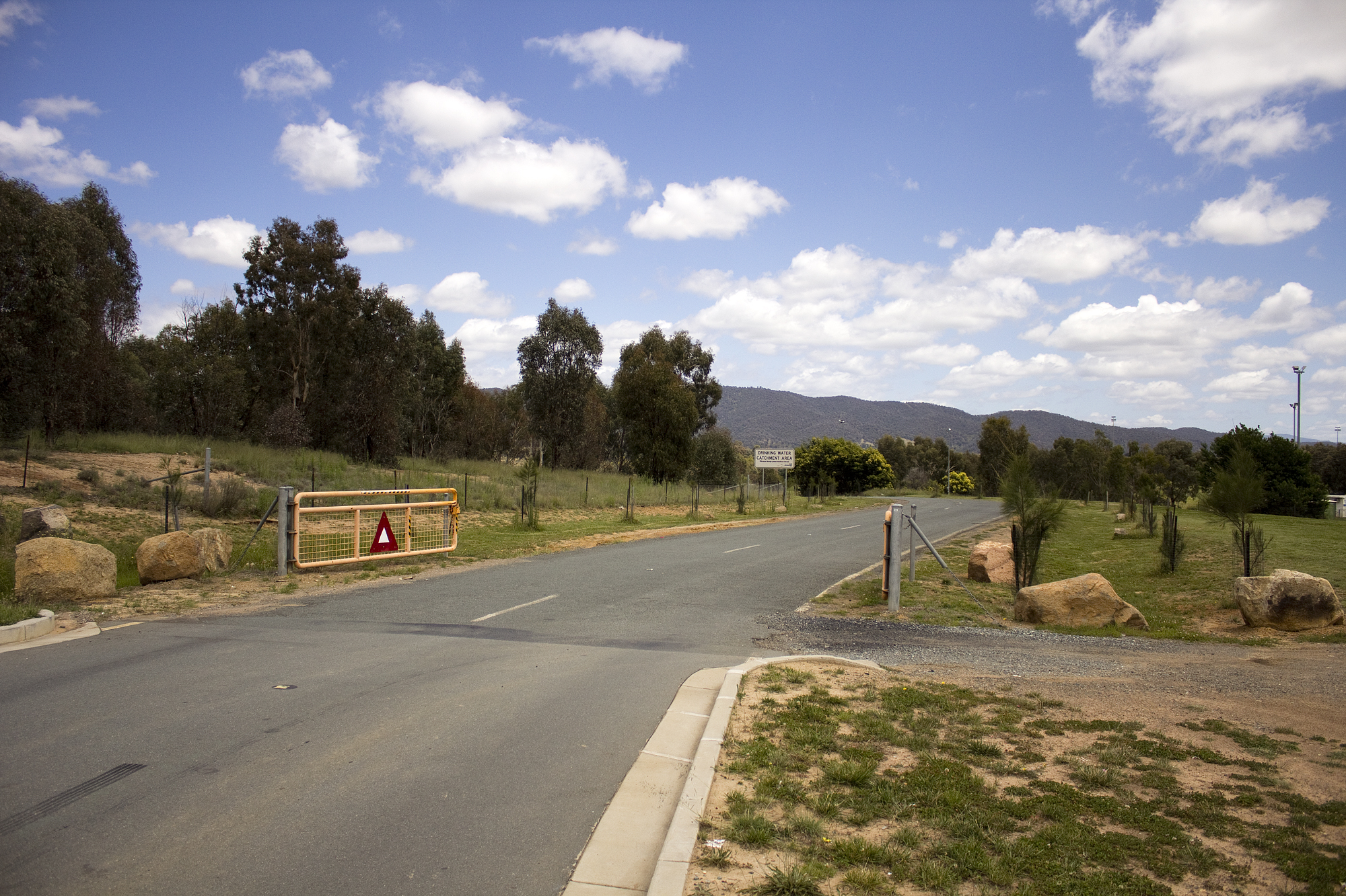 Pine Island Reserve entrance.